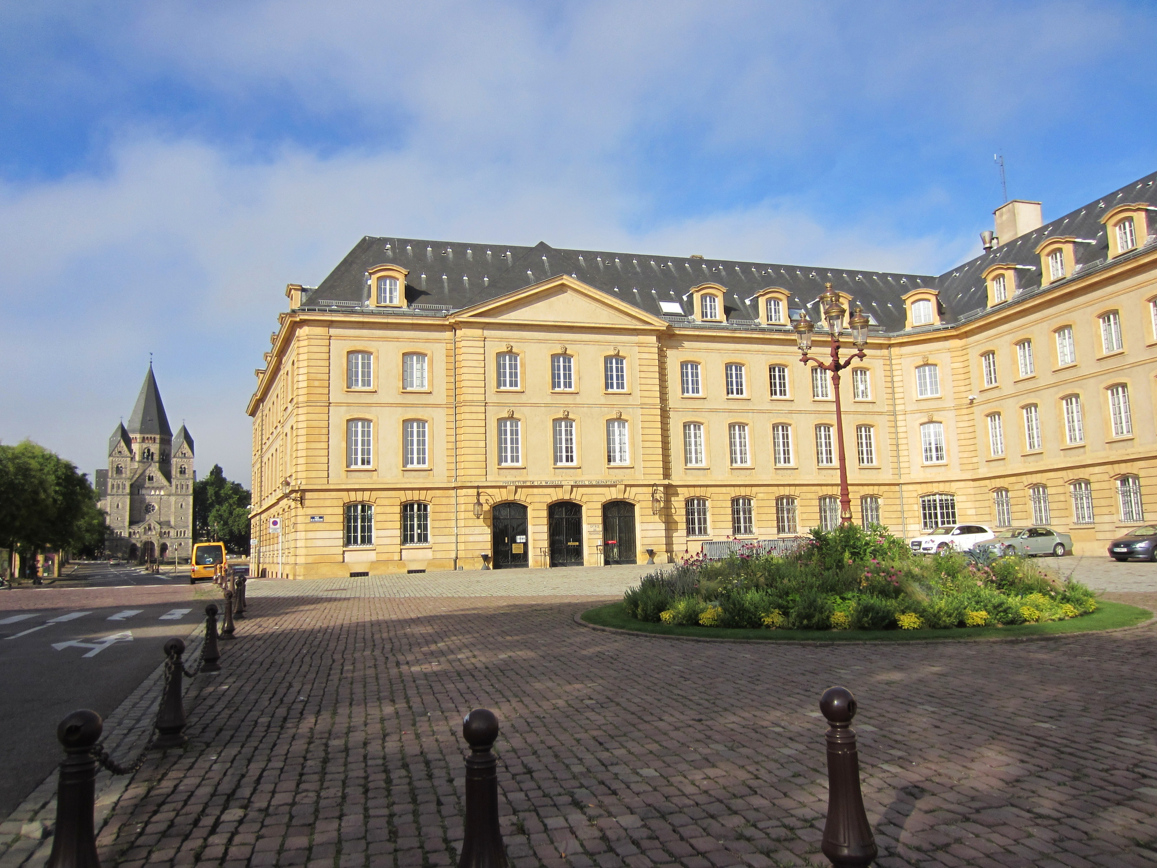 Description prefecture Metz Date23 November 2011Sourcemon appareil photoAuthorAimelaimePermission (Reusing this file) prefecture Metz